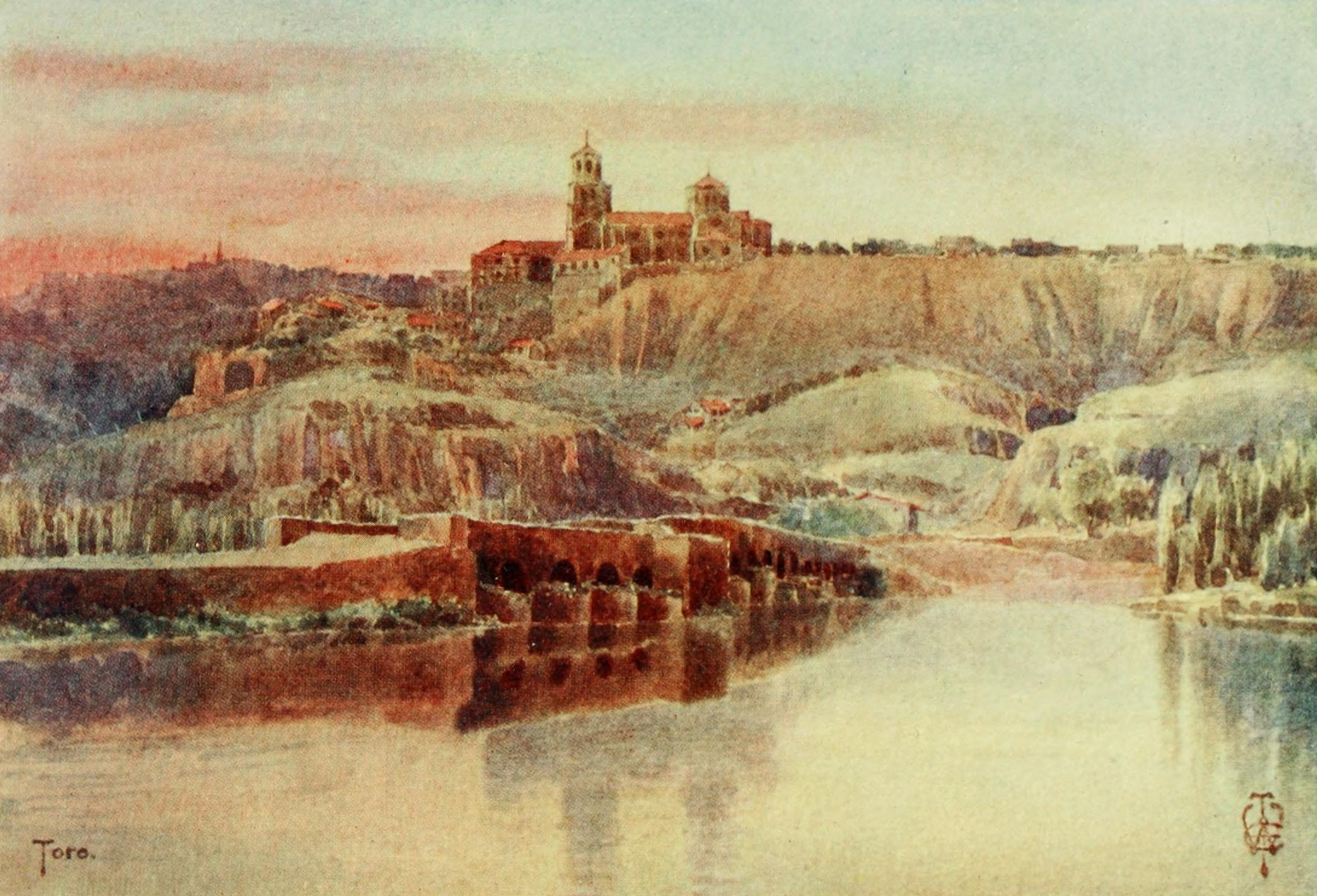 Toro from the banks of the Duero.